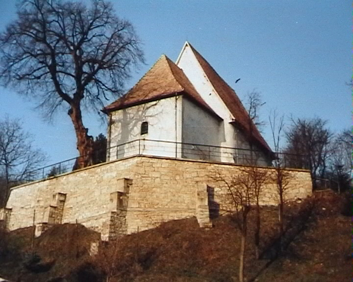 Reformed church of Viştea (hu. Magyarvista)